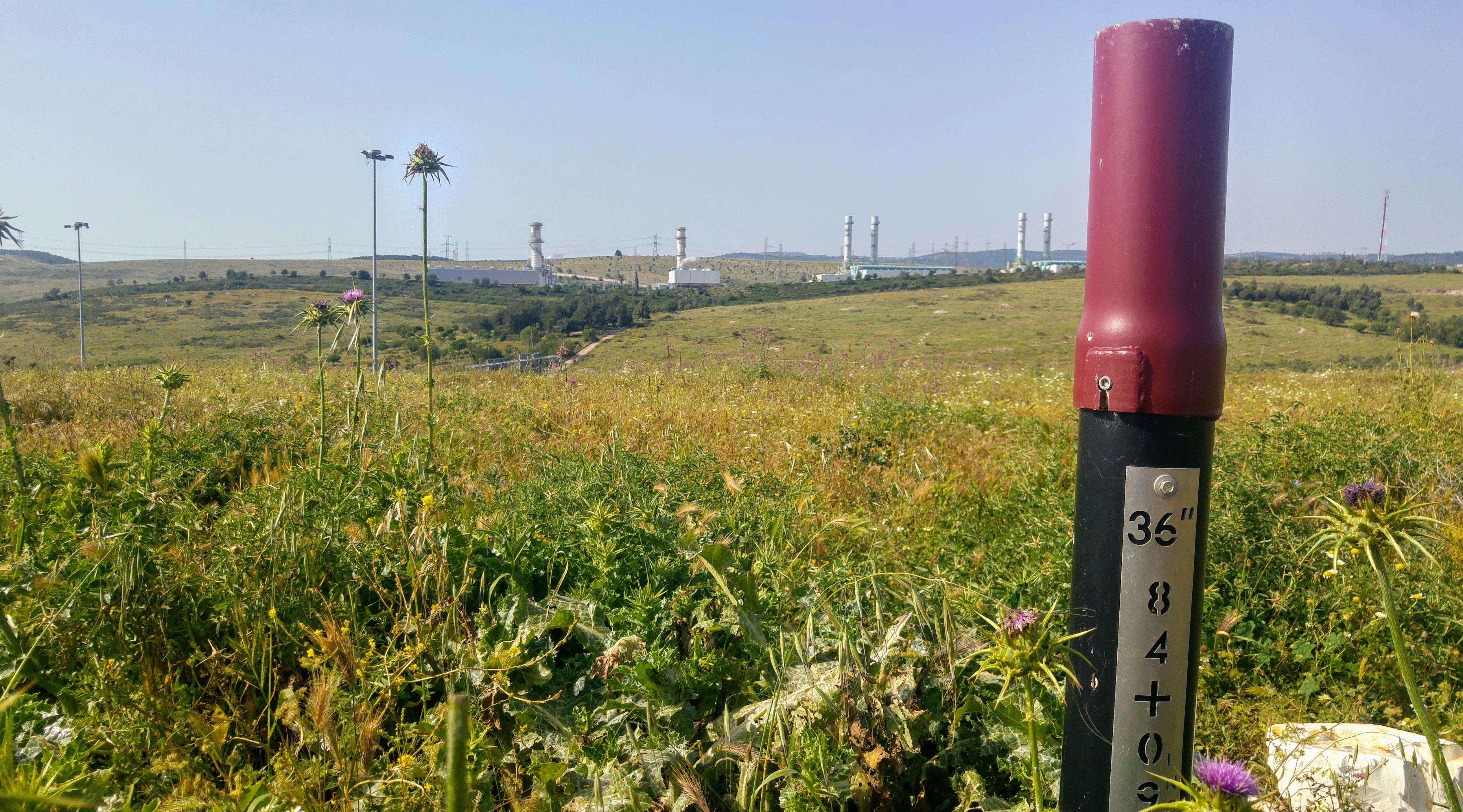 A gas pipeline and the power plant in the background